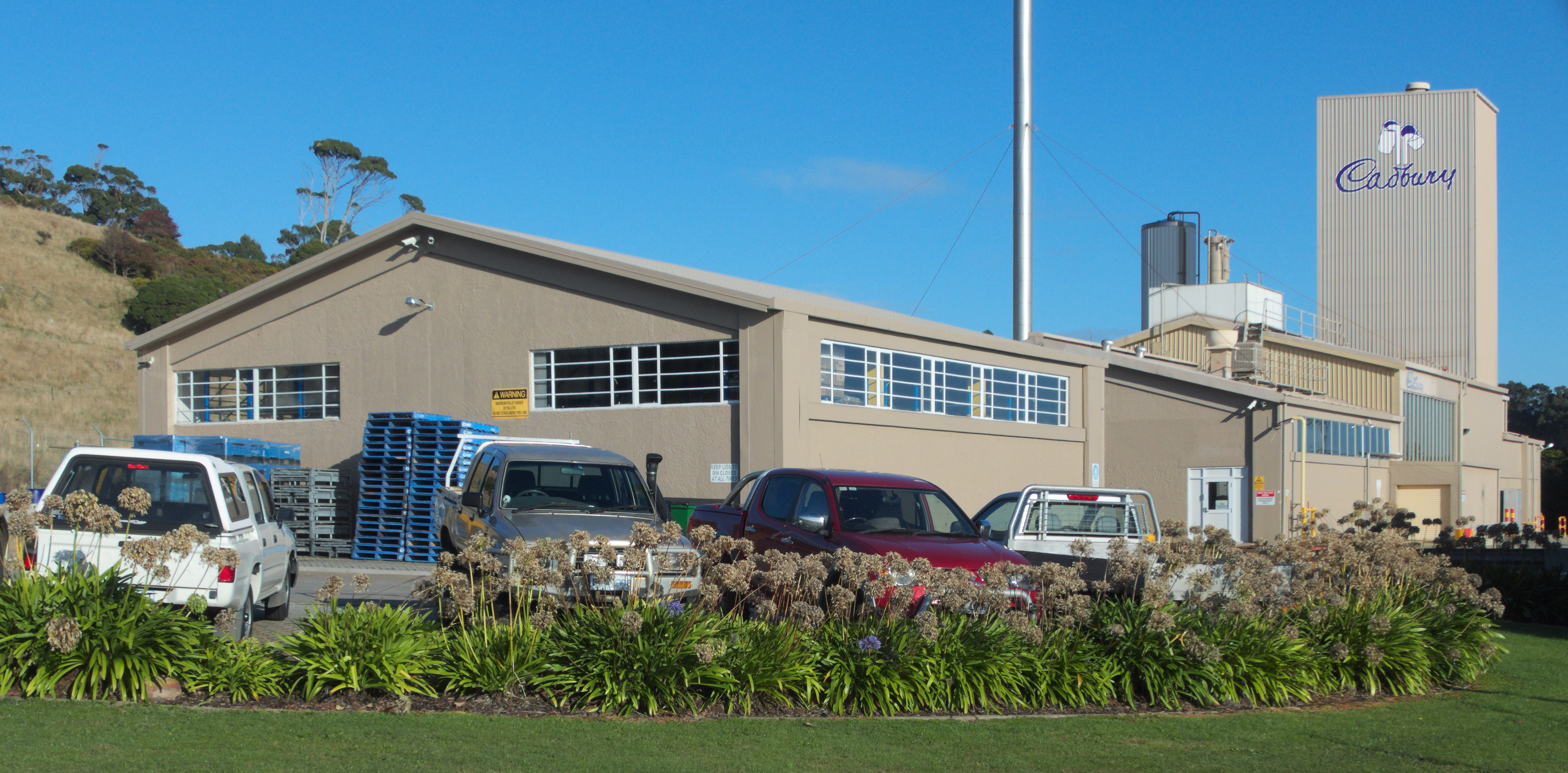 Cadbury milk processing plant at the corner of the Bass Highway and Brickport Road, Cooee, Burnie, Tasmania.